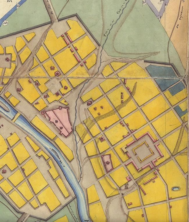 Serpukhov City map, fragment, 1826